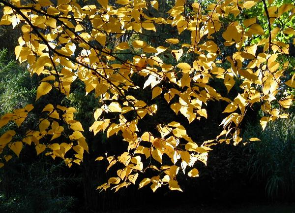 Betula ermanii: Autumn colour.